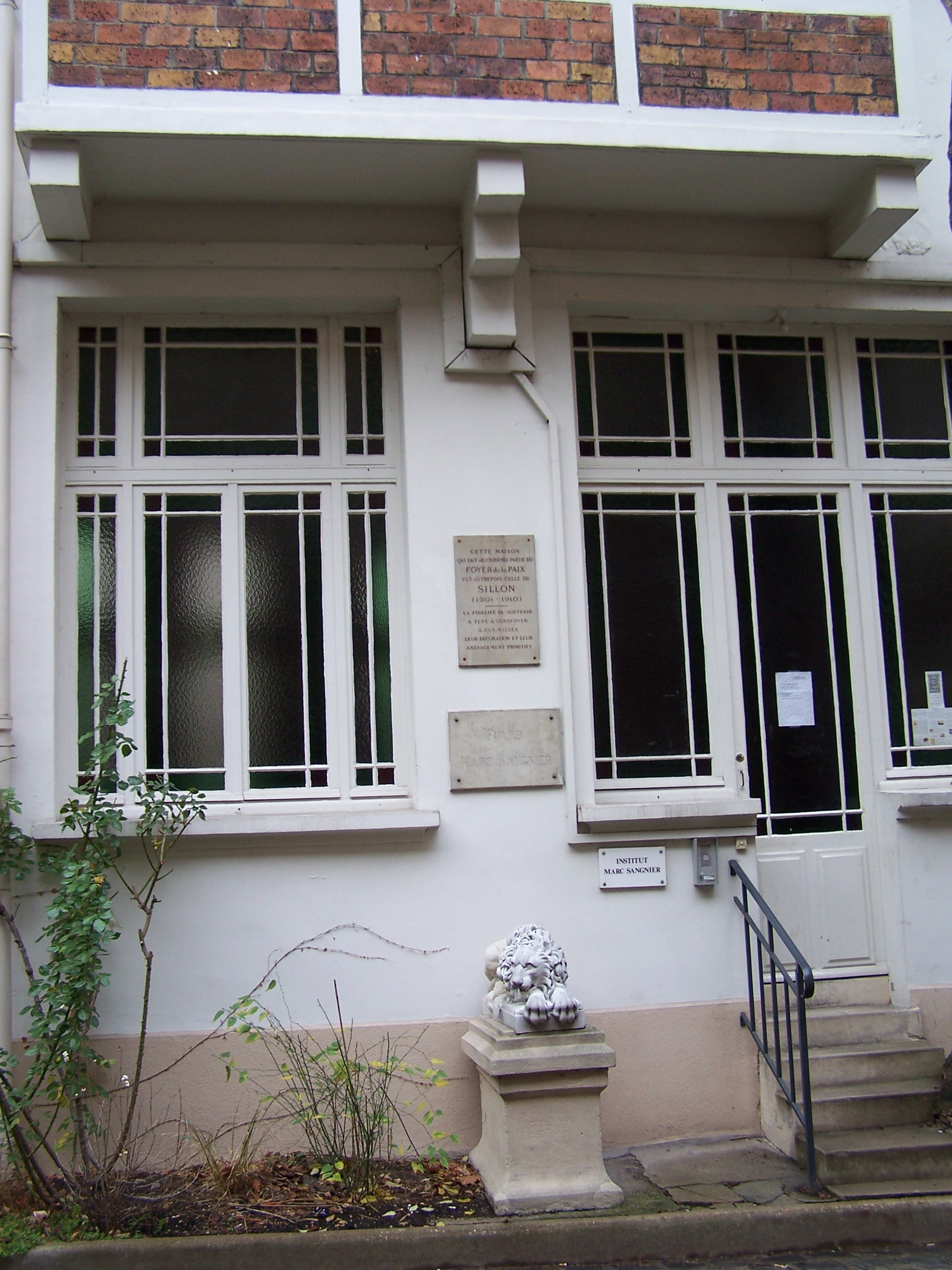 Entrance of the « Foyer du Sillon » at 38, boulevard Raspail in Paris